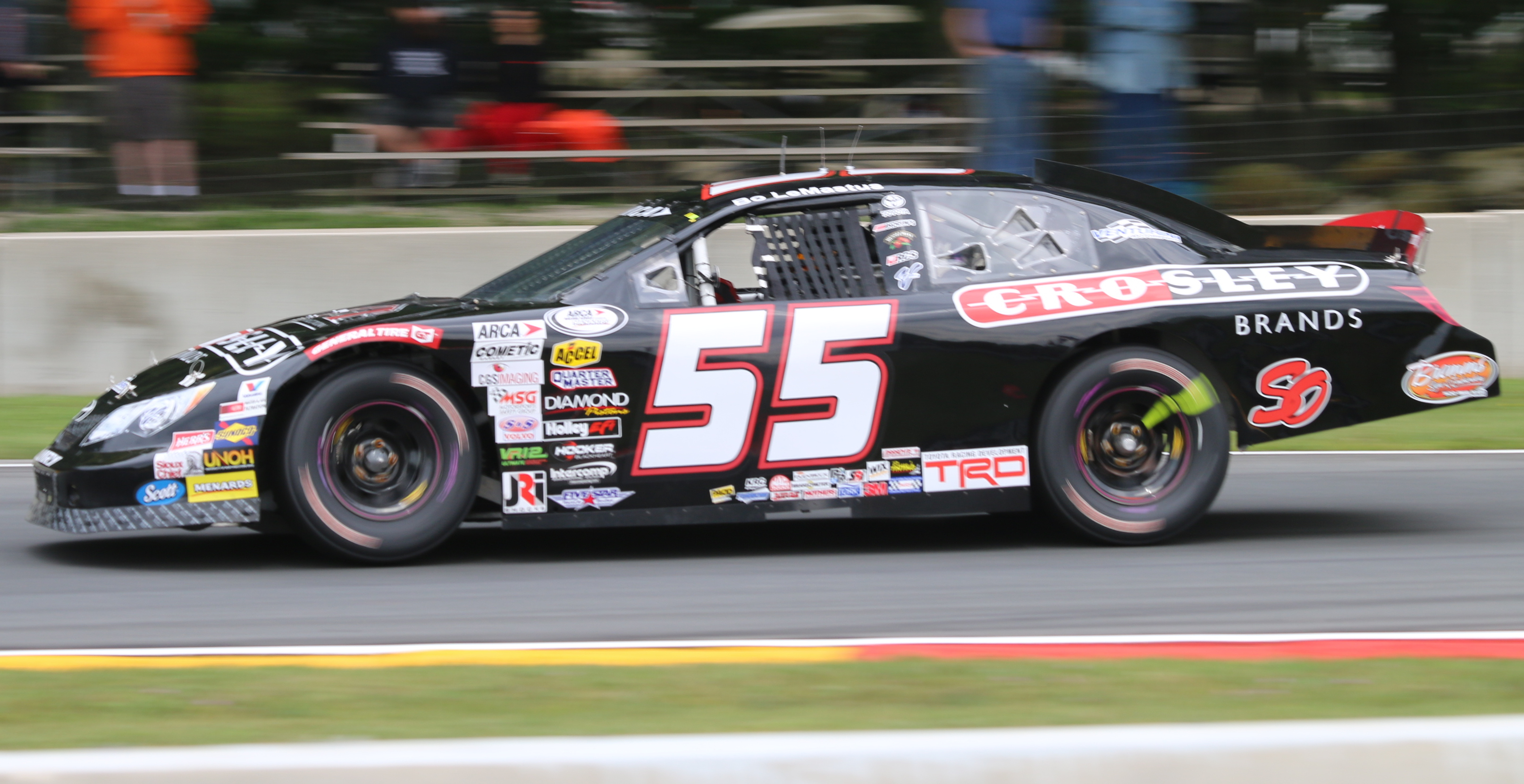 The ARCA Racing Series car of Bo Lemastus at the 2017 Road America 100 race.